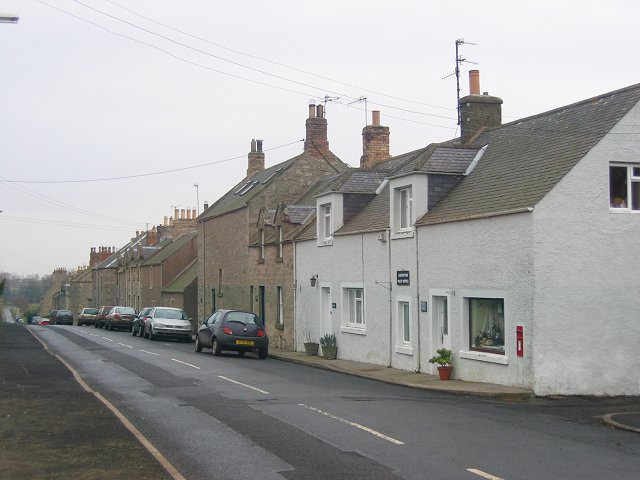 Gavinton. View east past the post office.